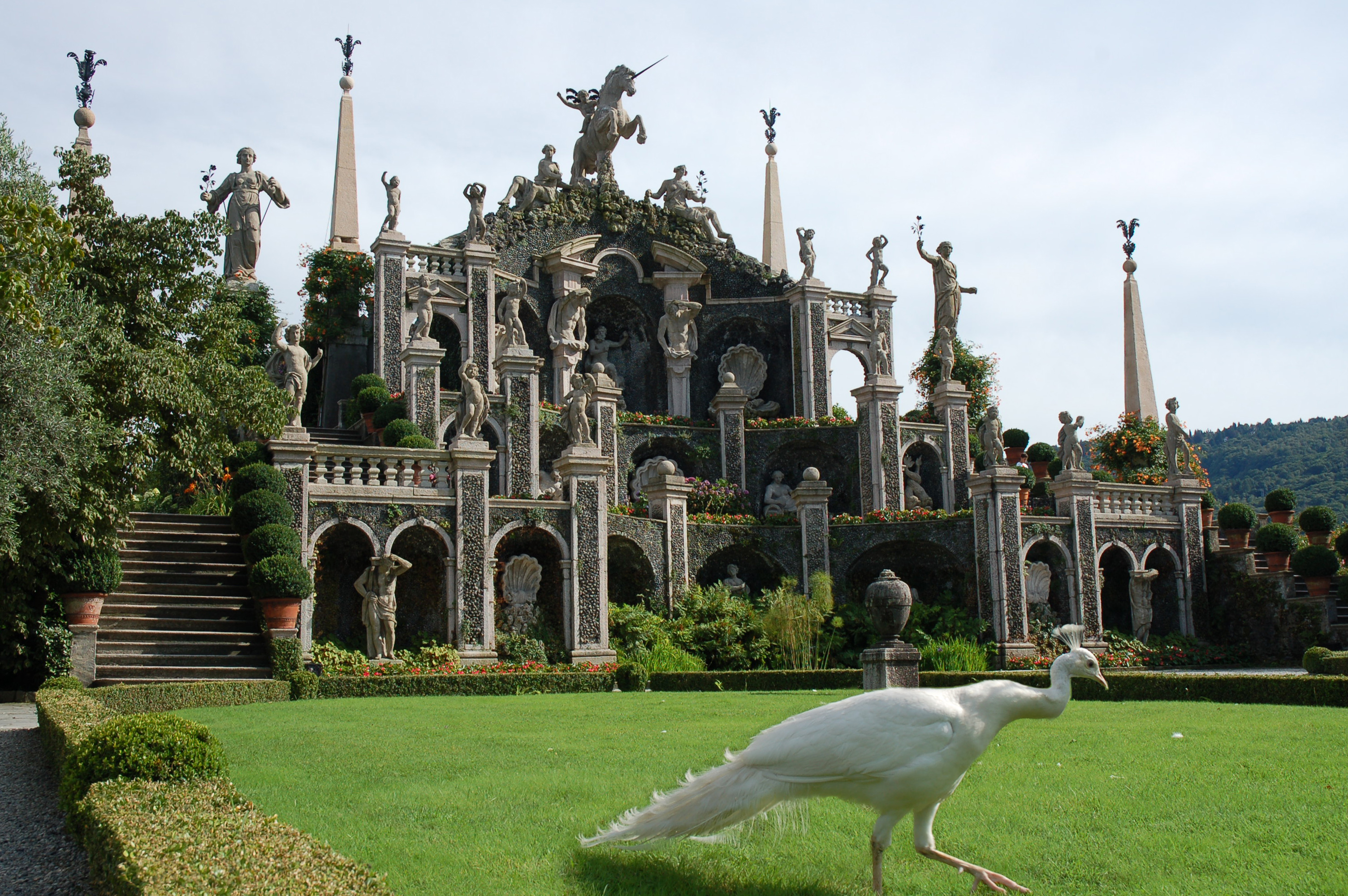 The belvedere in the baroque garden on Isola Bella, Lake Maggiore, Stresa, Italy.